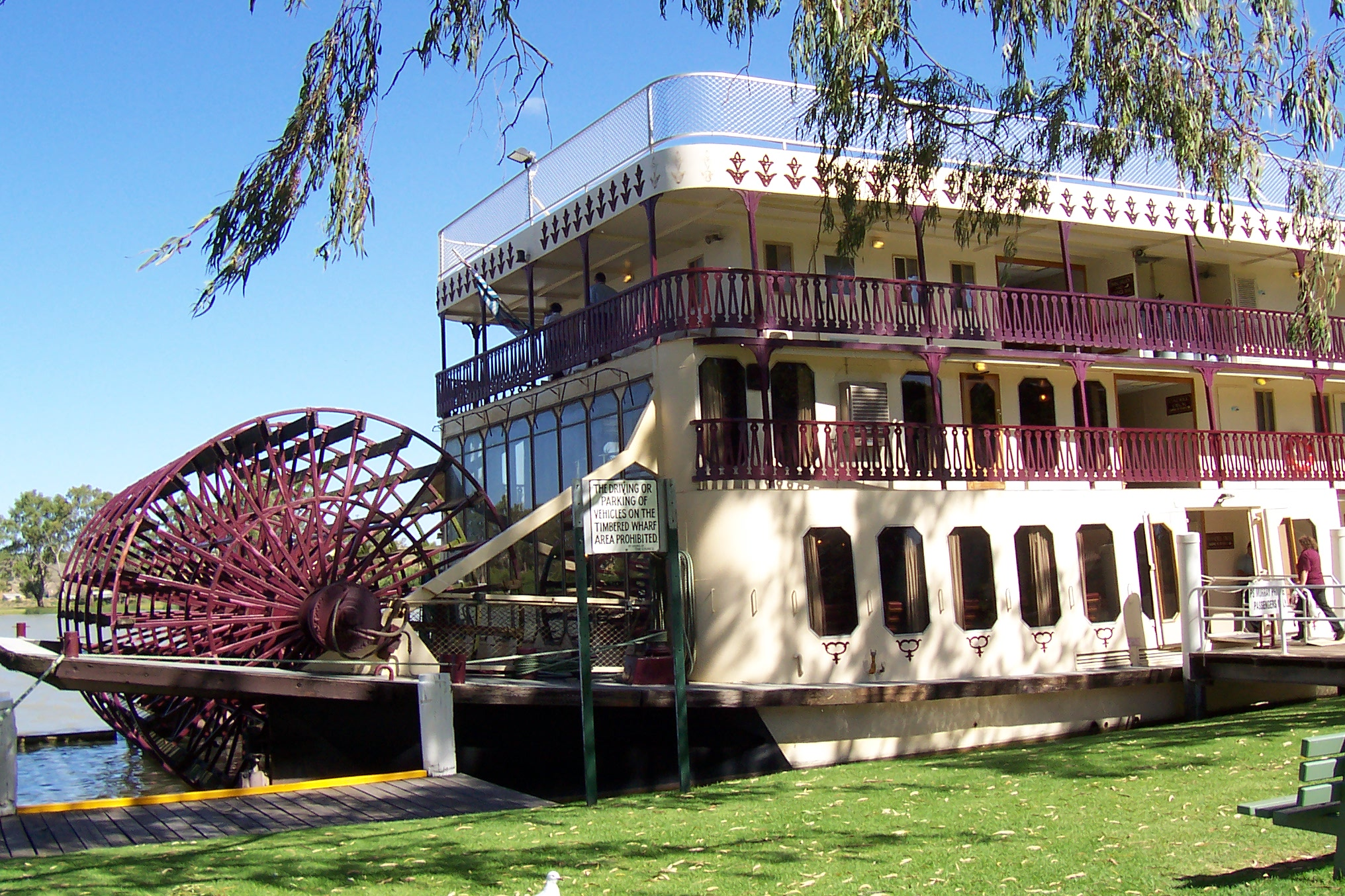 Stern of PS Murray Princess at Mannum